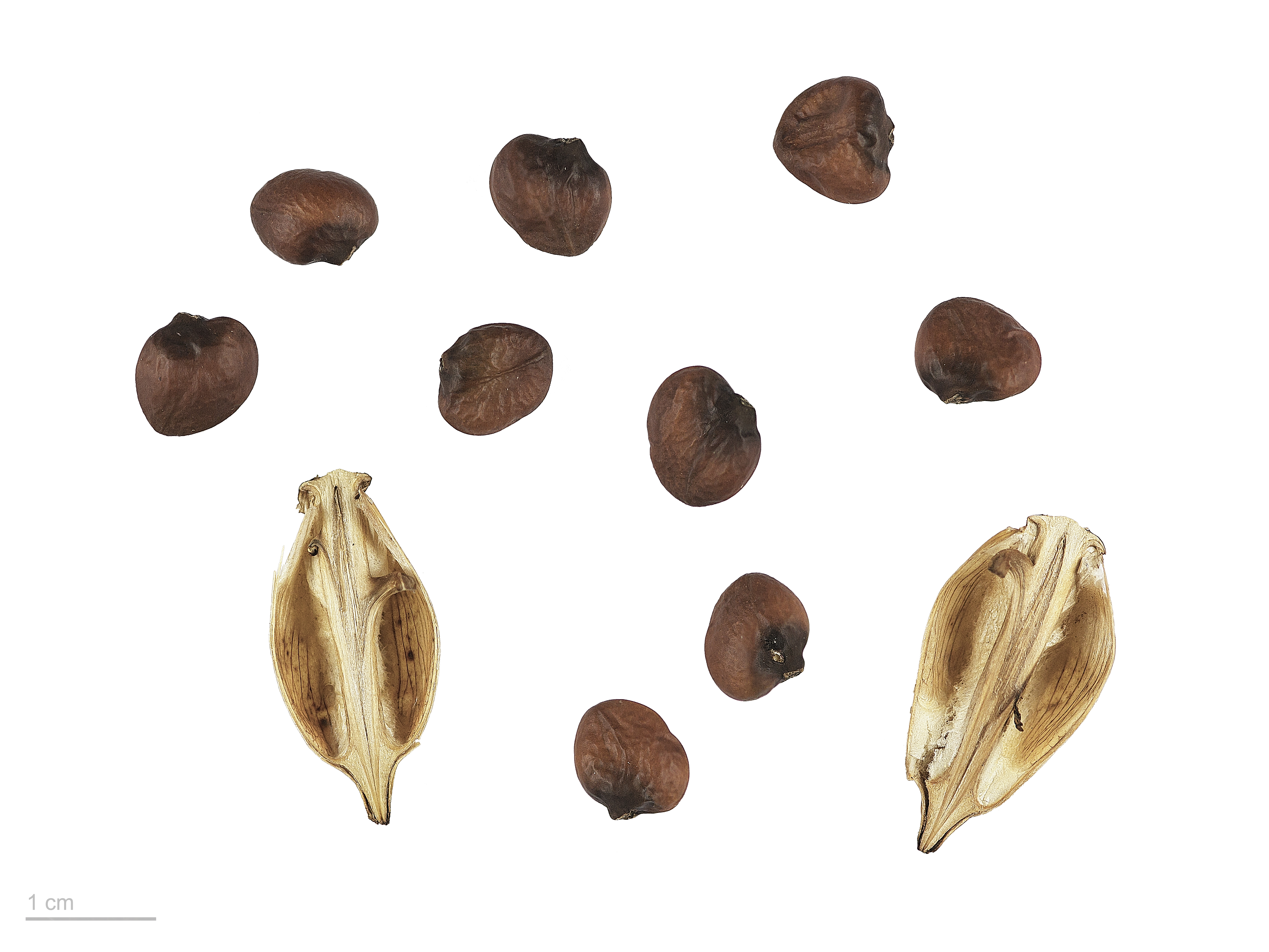 Acanthus mollis, bear's breeches, fruits and seeds